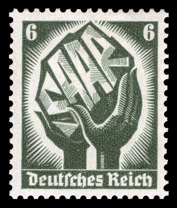 End of the Saar protectorat Ausgabepreis: 6 Pfennig First Day of Issue / Erstausgabetag: 26. August 1934 Michel-Katalog-Nr: 544 (Deutsches Reich)